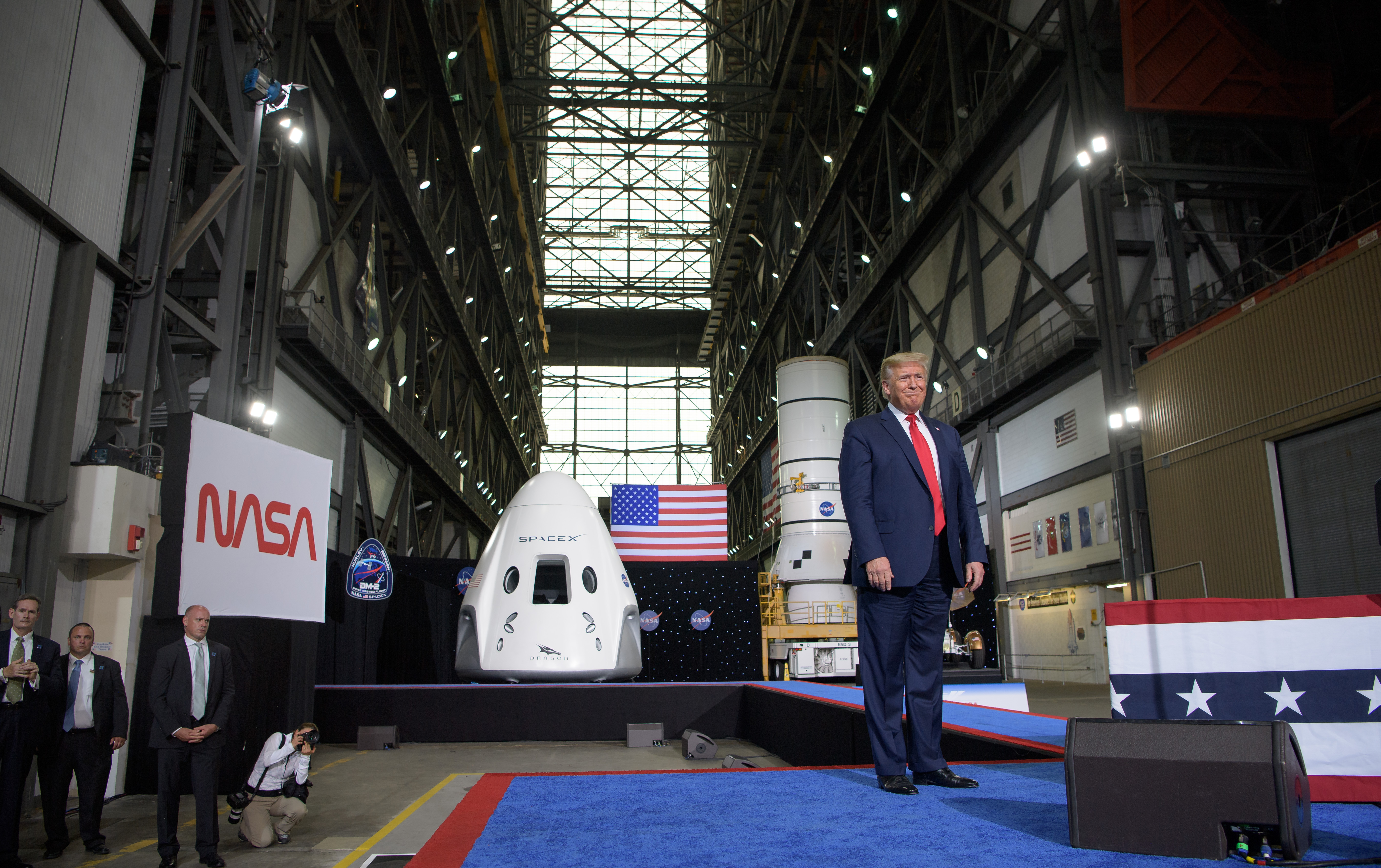 President Donald Trump speaks inside the Vehicle Assembly Building following the launch of a SpaceX Falcon 9 rocket carrying the company's Crew Dragon spacecraft on NASA’s SpaceX Demo-2 mission with NASA astronauts Robert Behnken and Douglas Hurley onboard, Saturday, May 30, 2020, at NASA’s Kennedy Space Center in Florida. NASA’s SpaceX Demo-2 mission is the first launch with astronauts of the SpaceX Crew Dragon spacecraft and Falcon 9 rocket to the International Space Station as part of the agency’s Commercial Crew Program. The test flight serves as an end-to-end demonstration of SpaceX’s crew transportation system. Behnken and Hurley launched at 3:22 p.m. EDT on Saturday, May 30, from Launch Complex 39A at the Kennedy Space Center. A new era of human spaceflight is set to begin as American astronauts once again launch on an American rocket from American soil to low-Earth orbit for the first time since the conclusion of the Space Shuttle Program in 2011. Photo Credit: (NASA/Bill Ingalls)